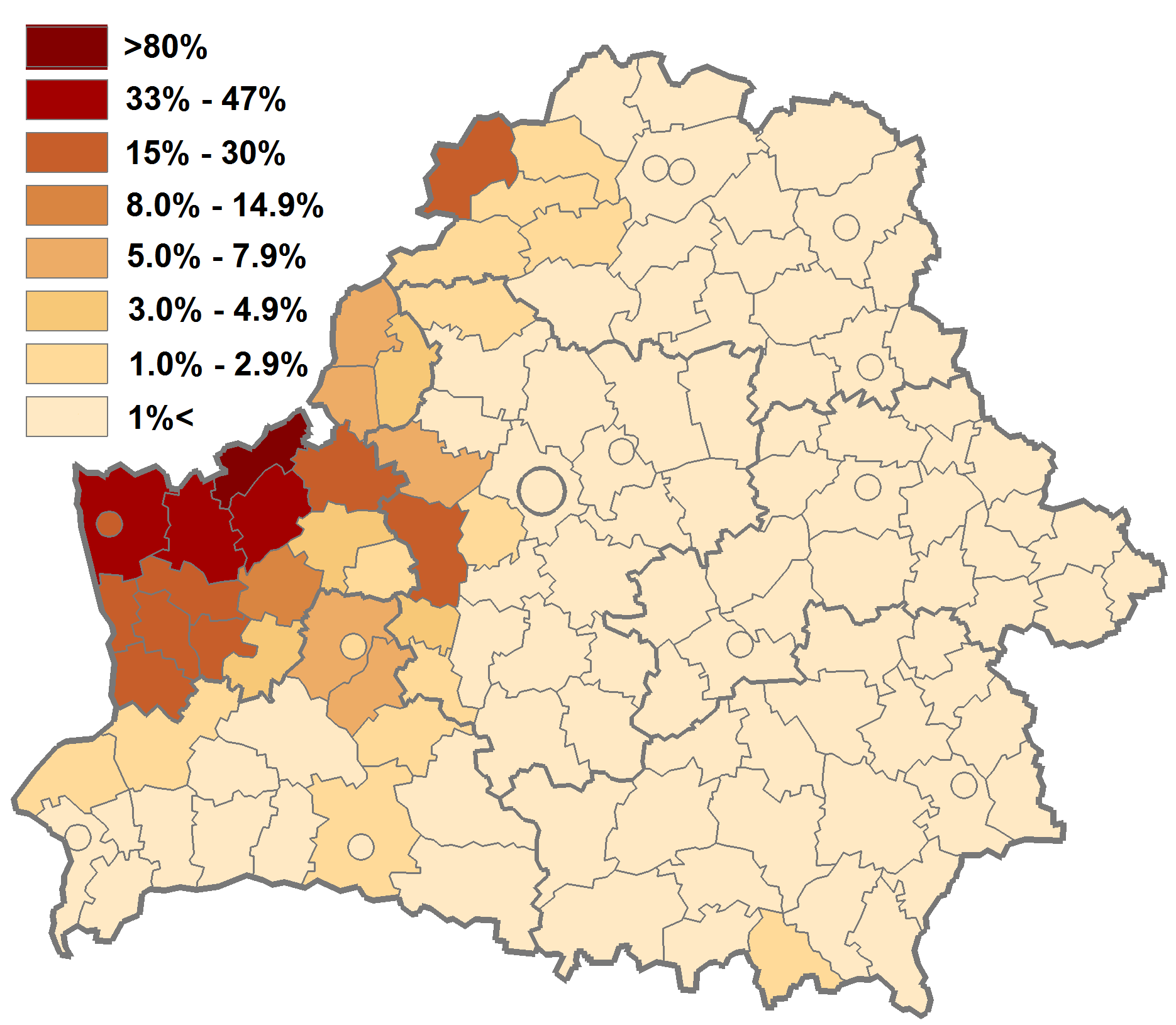 Belarus National Census 2009 data used. District level divisions, circles - larger cities not included into districts in the Census tables